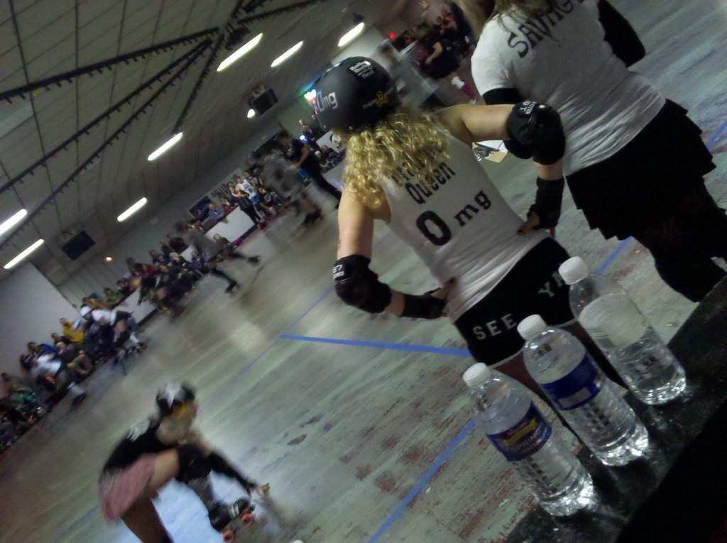 The action's hot. My fave jammer, 0mg Drama Queen. @bwrollergirls